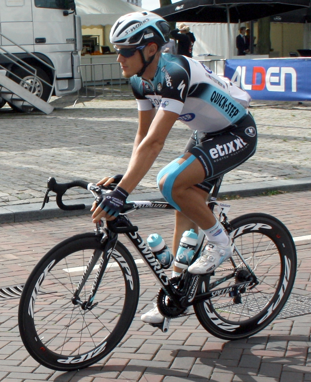 Matteo Trentin before the start of stage 2 of the World Ports Classic 2013